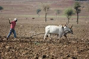 the farmer is tilling his land